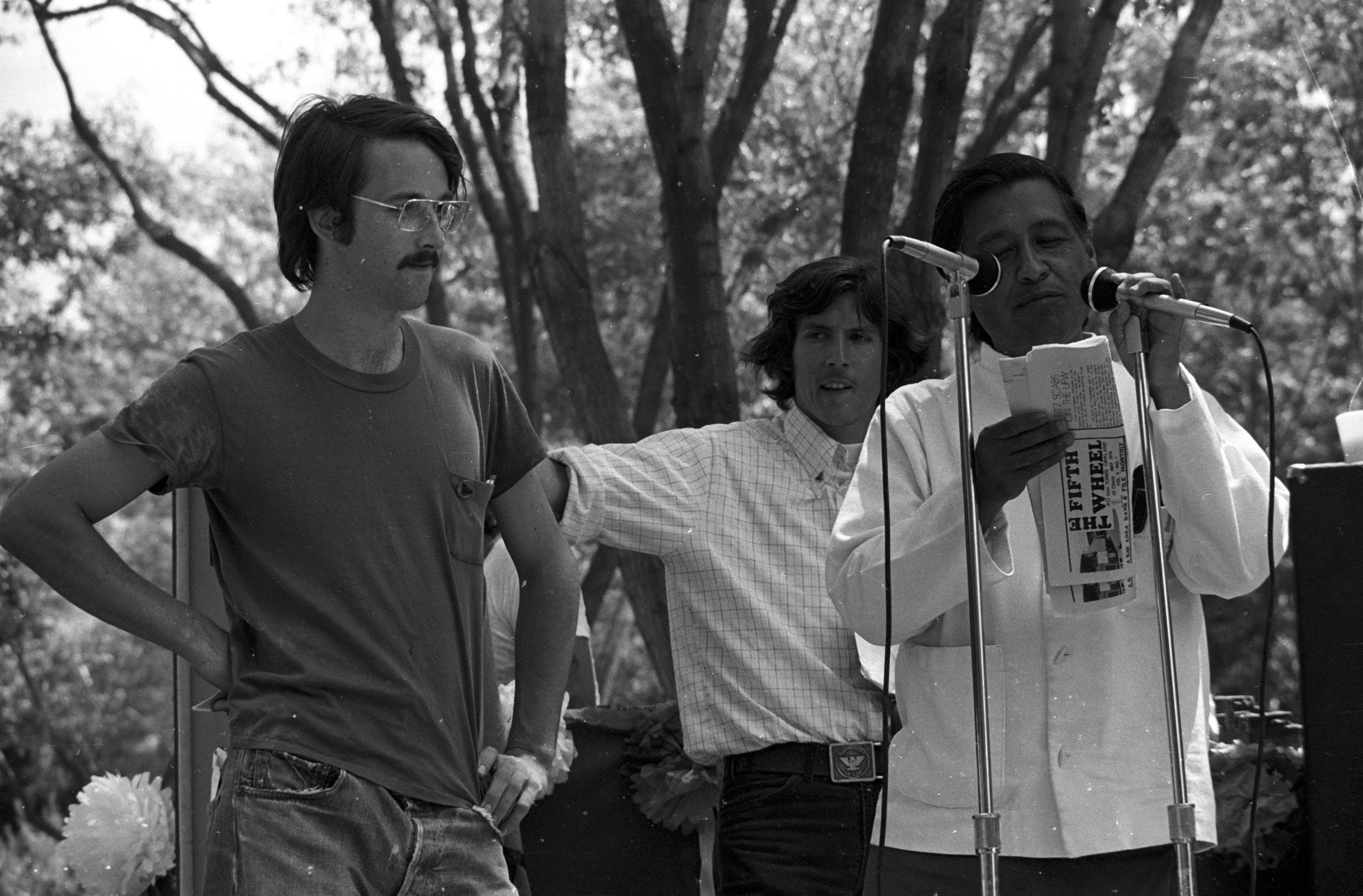 Duncan West speaking with Cesar Chavez — at the Delano UFW rally in Delano, California (1974). Duncan represented the Teamsters who were supporiting the United Farm Workers−UFW, and condeming their IBT union leadership for working as thugs against a fellow union. Duncan and his wife Mary were the branch organizers of the LA IS.